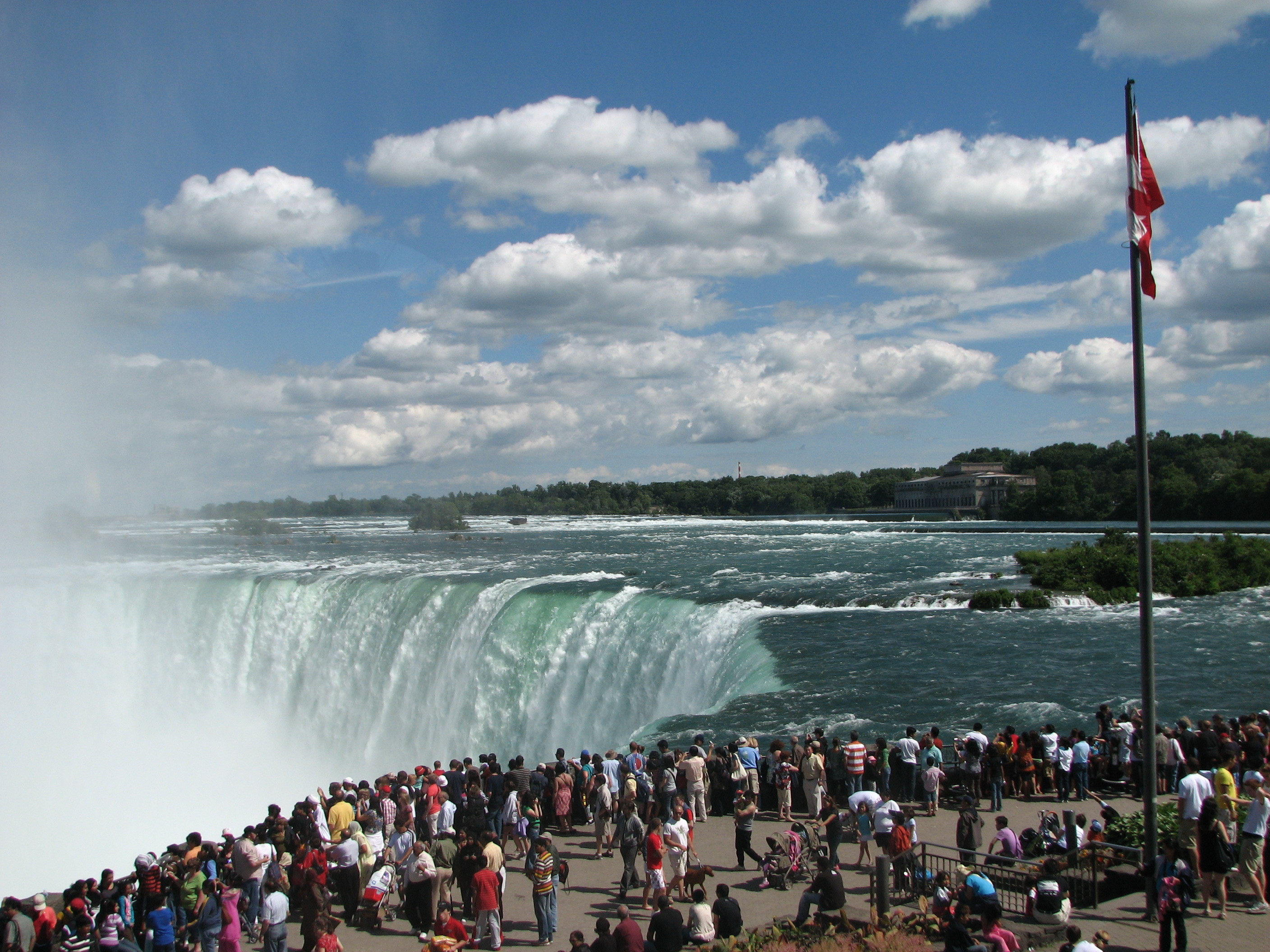 A view of a portion of the Horseshoe Falls, aka Canadian Falls, located at Niagra Falls. This image is taken from the Canadian side of the river in Niagra Falls, Ontario. The Canadian Flag is shown flying at the right.